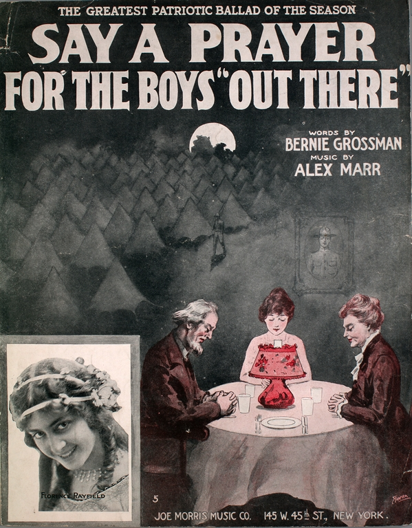 sheet music cover version with florence rayfield